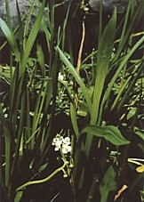 Sagittaria sanfordii by J. Molter, Bureau of Land Management. US Govt photo, no copyright.